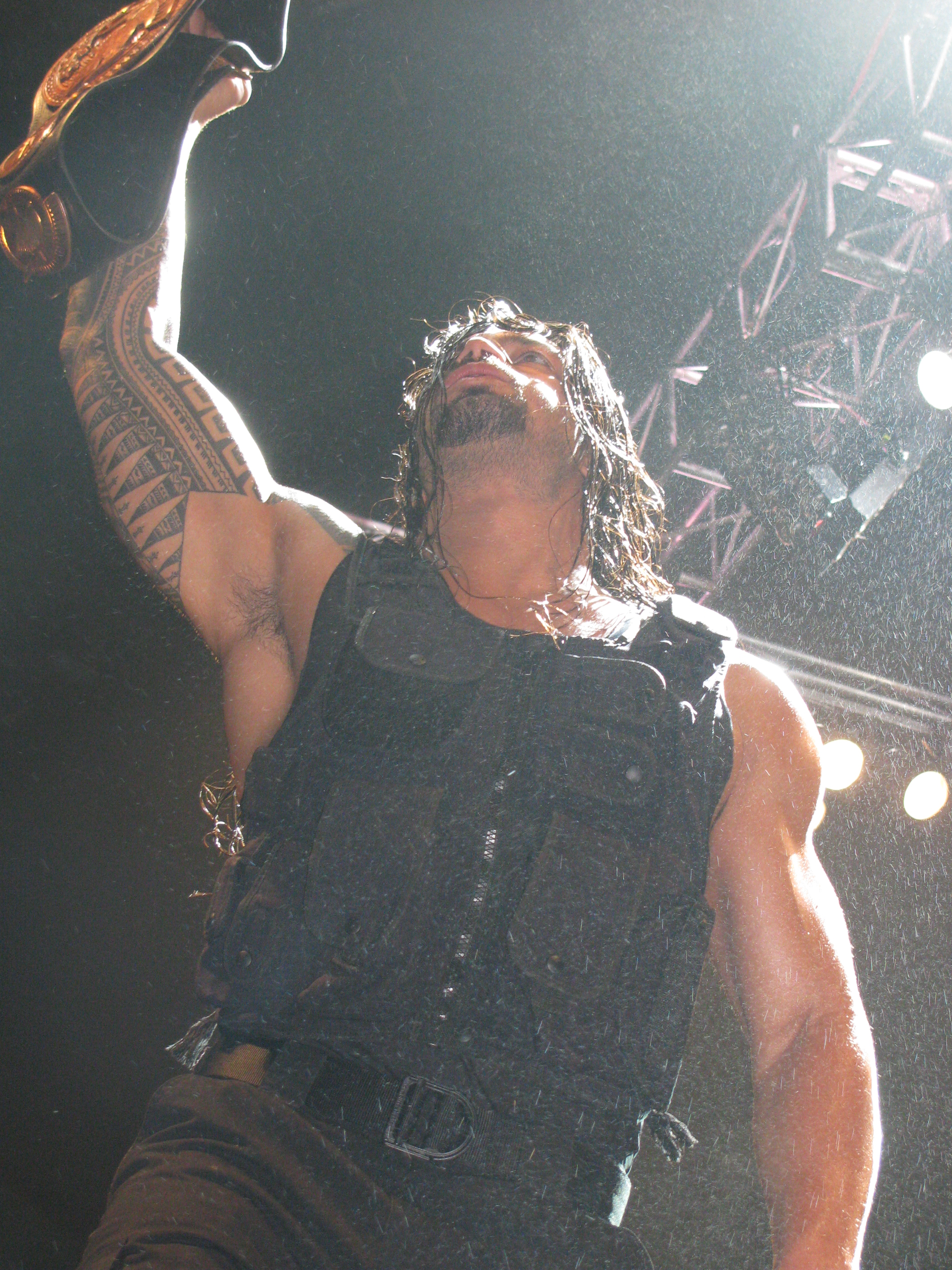 Roman Reigns @ Adelaide, South Australia WWE house show on the 29th of July '13